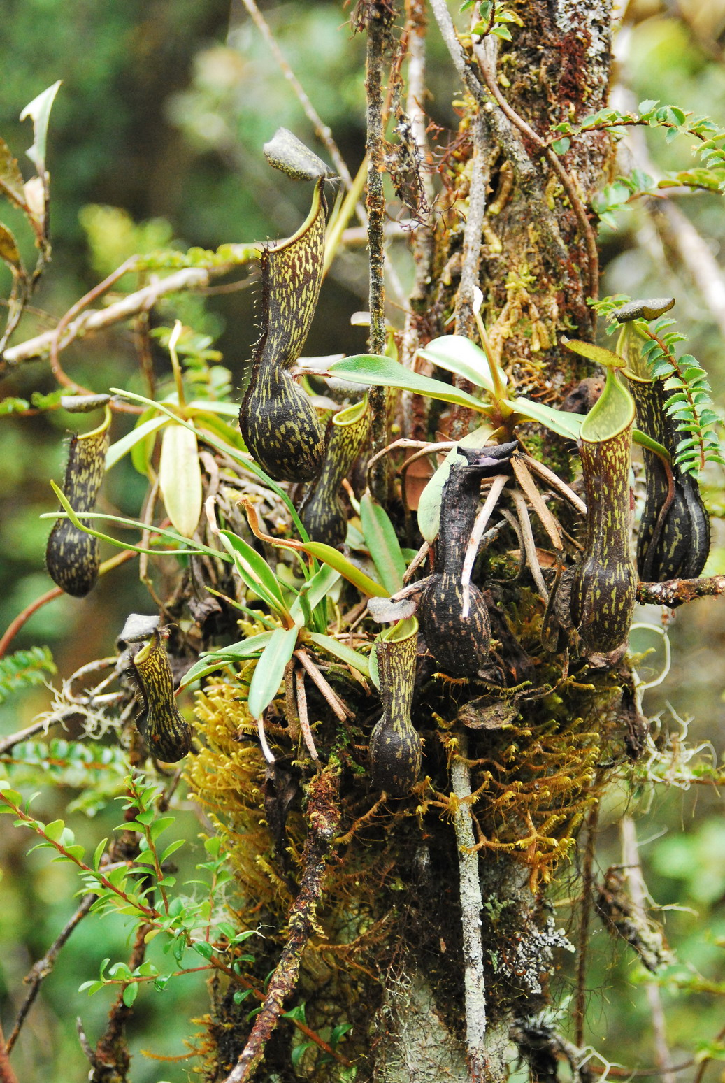 Nepenthes mikei, North Sumatra